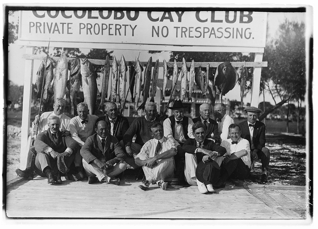 U.S. President Warren Harding and friends at the Cocolobo Cay Club, Florida, USA between 1921 and 1923